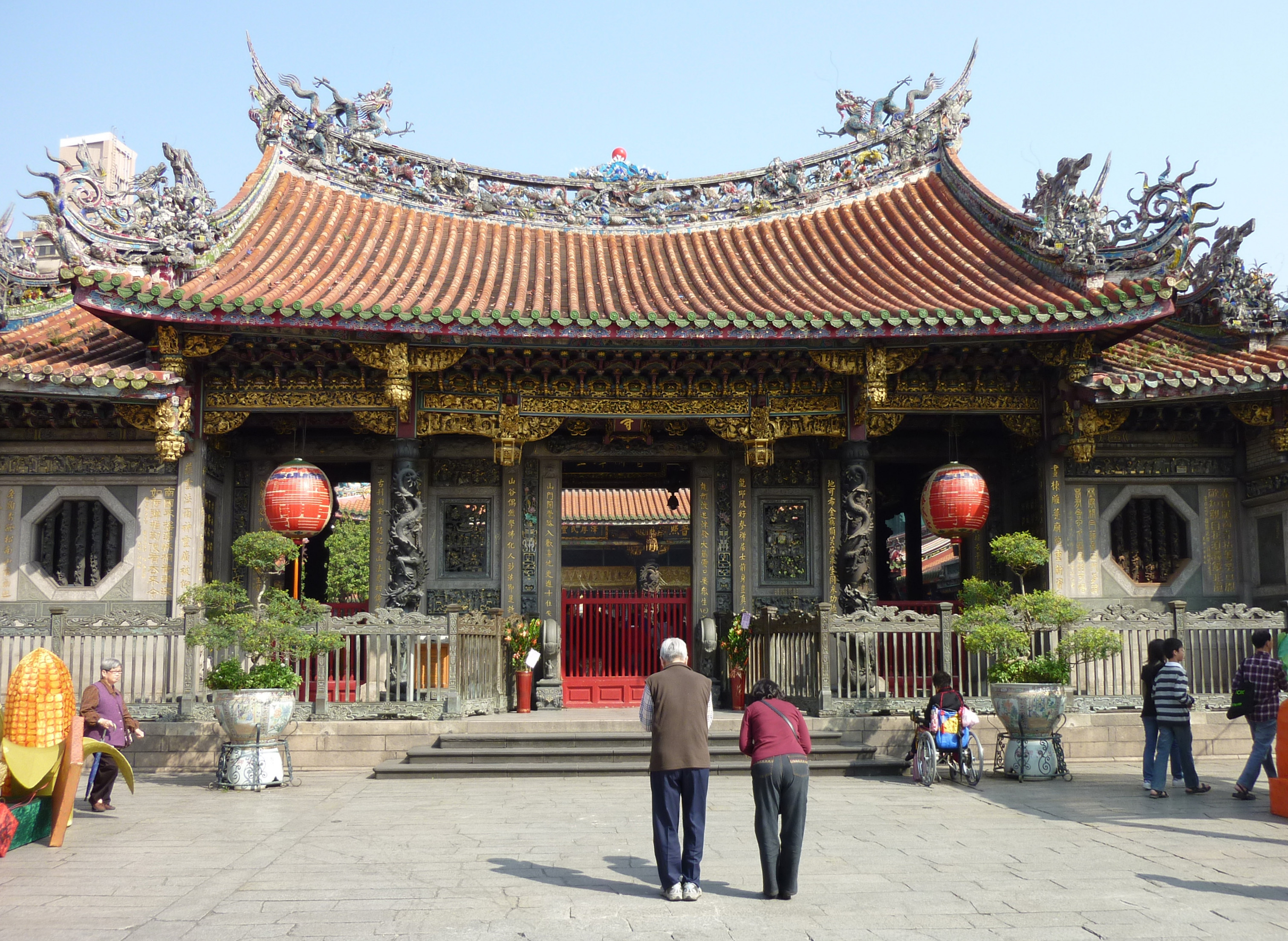 Right entrance (Dragon door) of the Mengjia Longshan Temple in Taipei, Taiwan